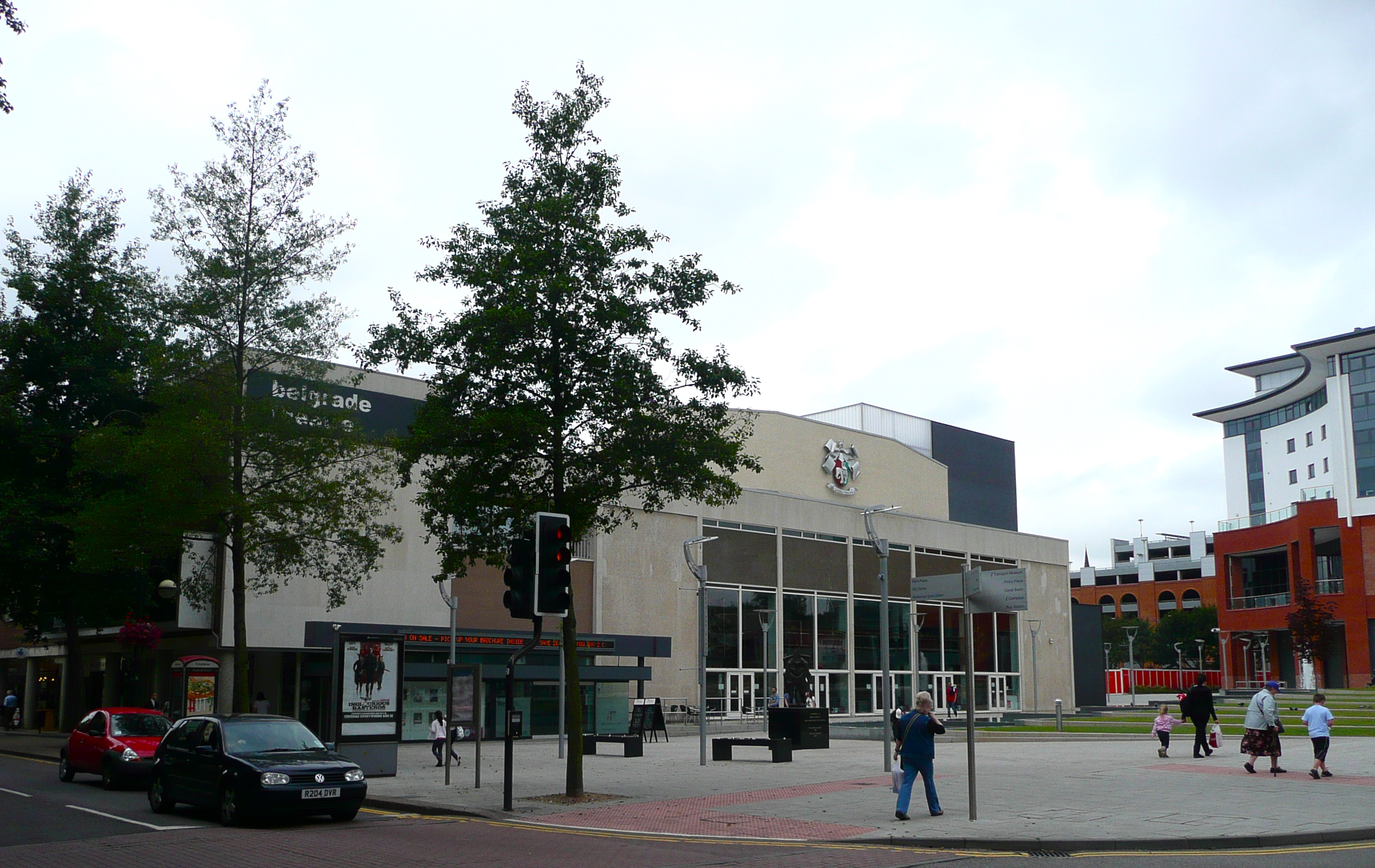 The Belgrade Theatre